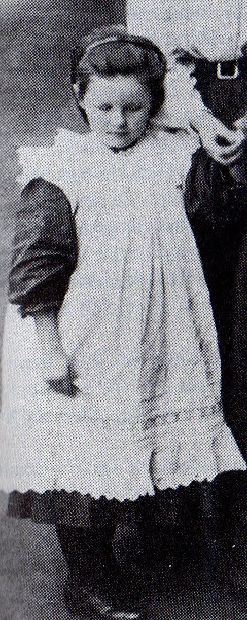 Alice Mary Betteridge (1901-1966), in 1910 at the Institution for Deaf and Dumb and Blind, Sydney, NSW (now Royal Institute for Deaf and Blind Children)